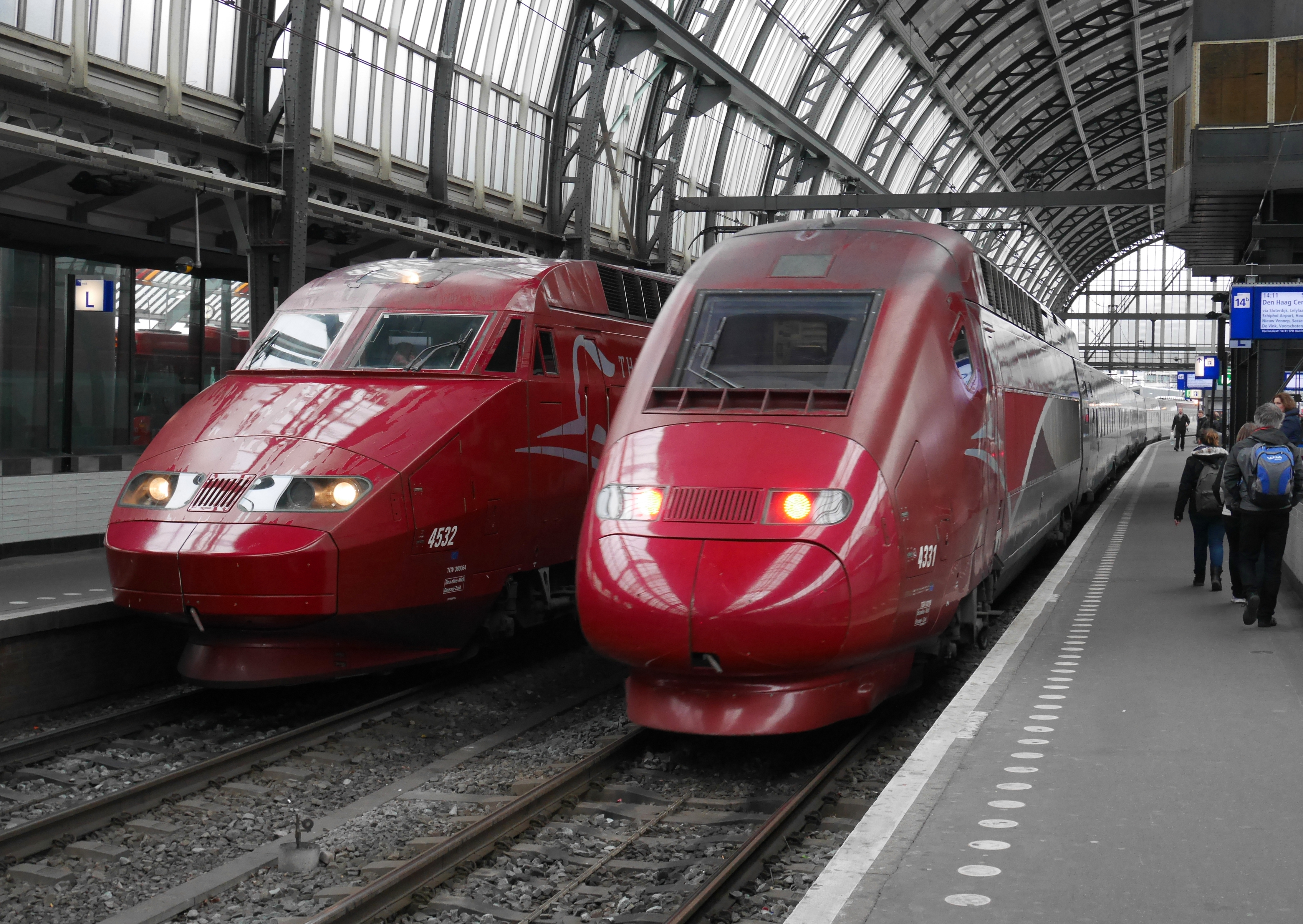 Thalys 4532 awaits passengers as THA 9358 to Paris Gare du Nord, while Thalys 4331, which had arrived from Paris Gare du Nord as THA 9327, is running to the yard.